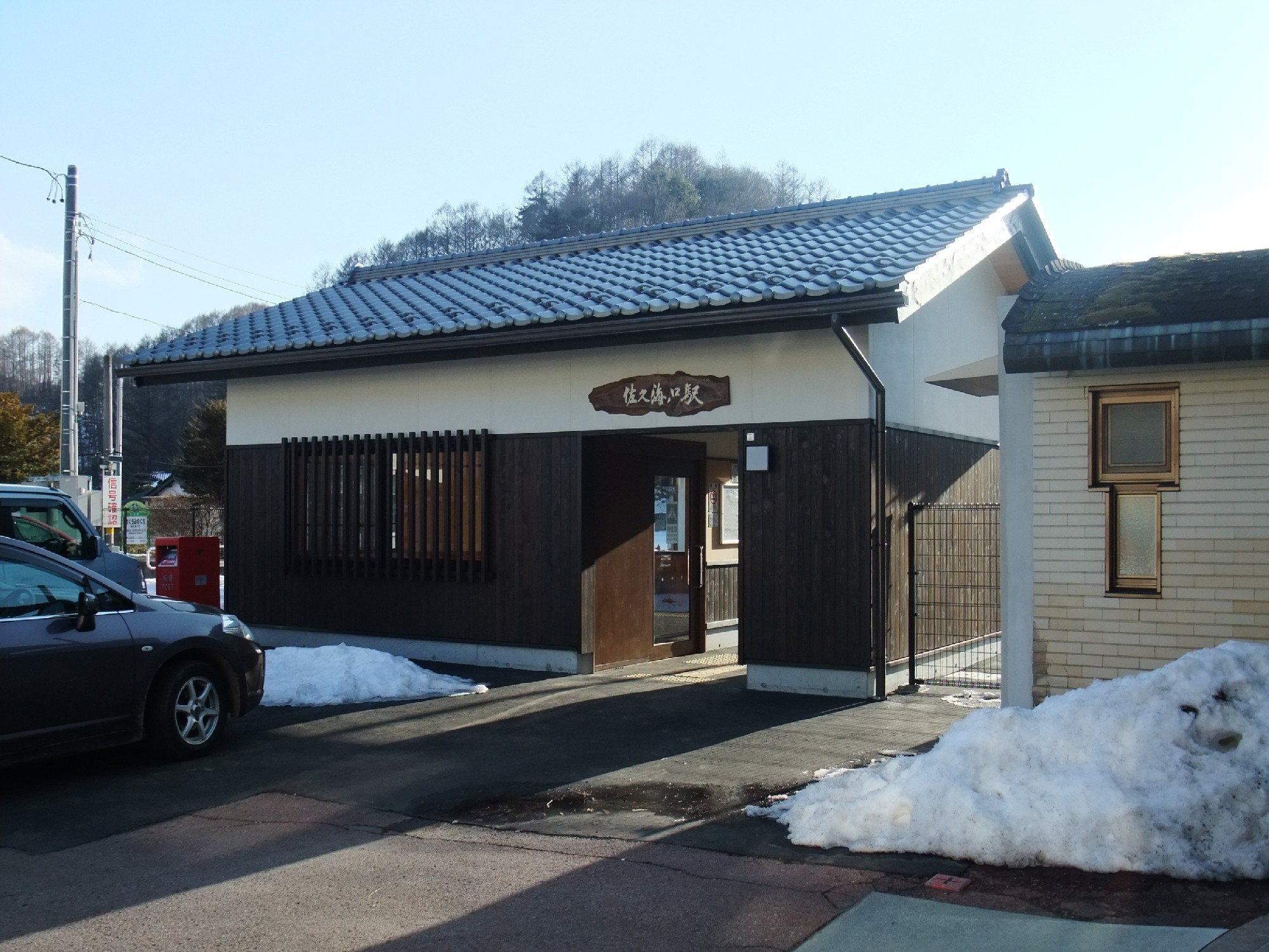 Saku-Uminokuchi Station on JR East Koumi Line in Minamimaki, Nagano, Japan